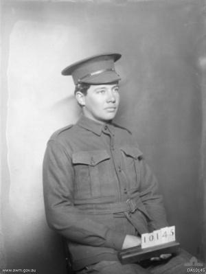 Studio portrait of Roy Longmore, one of the last living veterans of the Australian and New Zealand Army Corps in World War I.